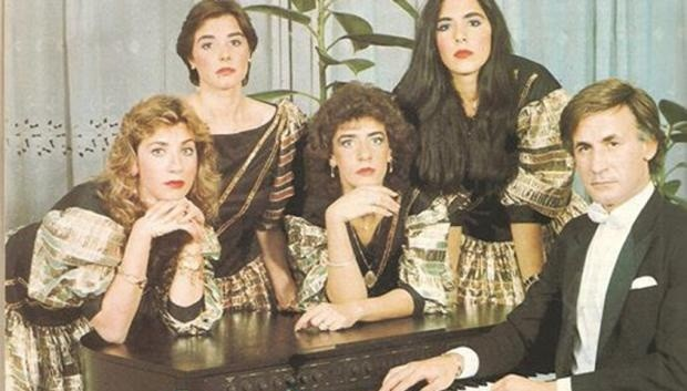 Four M Band in 1980